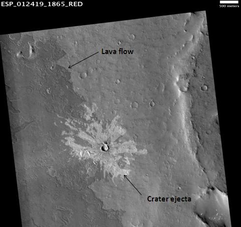 Lava flow and crater ejecta, as seen by hirise. Location is 6.5 North and 140.3 East. Scale bar is 500 meters long. Image was taken by the Mars Reconnaissance Orbiter's HiRISE. The HiRISE camera was built by Ball Aerospace and Technology Corporation and is operated by the University of Arizona. Image courtesy NASA/JPL/University of Arizona.